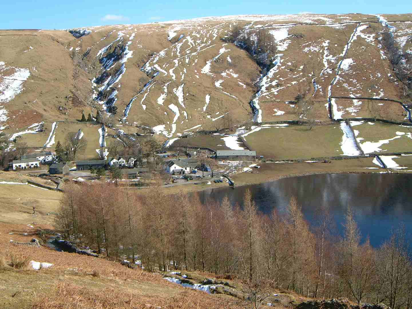 Personal picture taken by Mick Knapton in March 2006